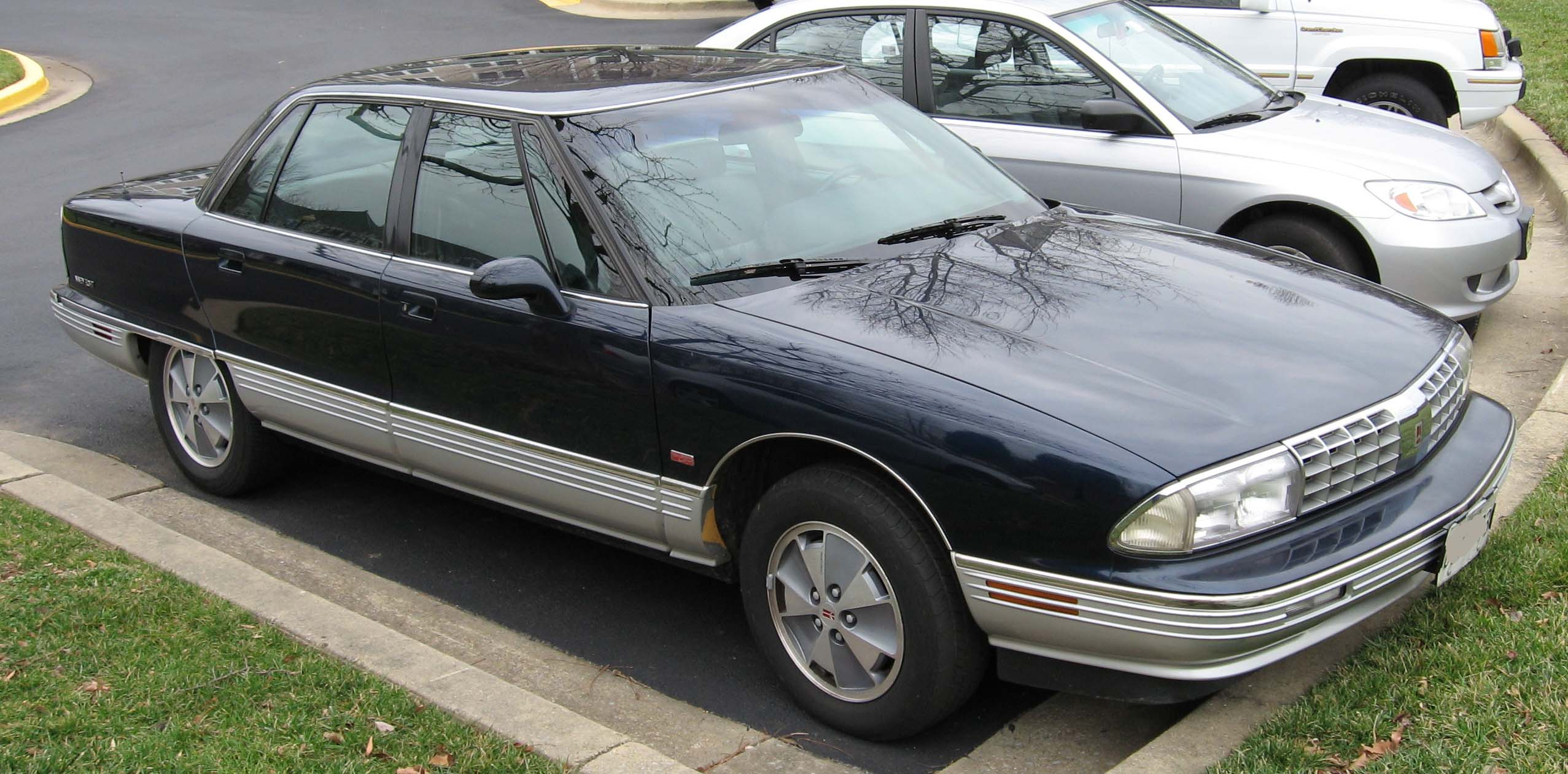 1991-1996 Oldsmobile 98 photographed in USA.